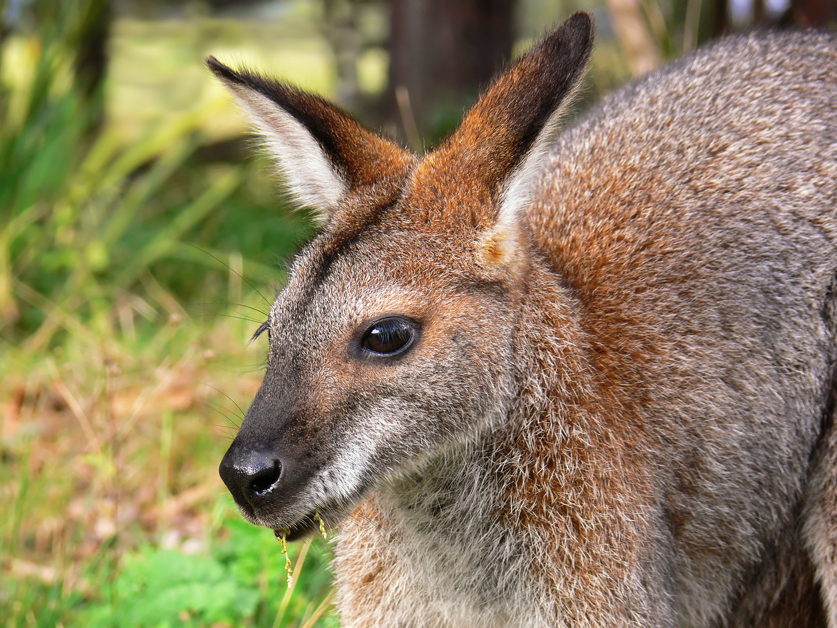 A female Red-necked wallaby, Macropus rufogriseus.